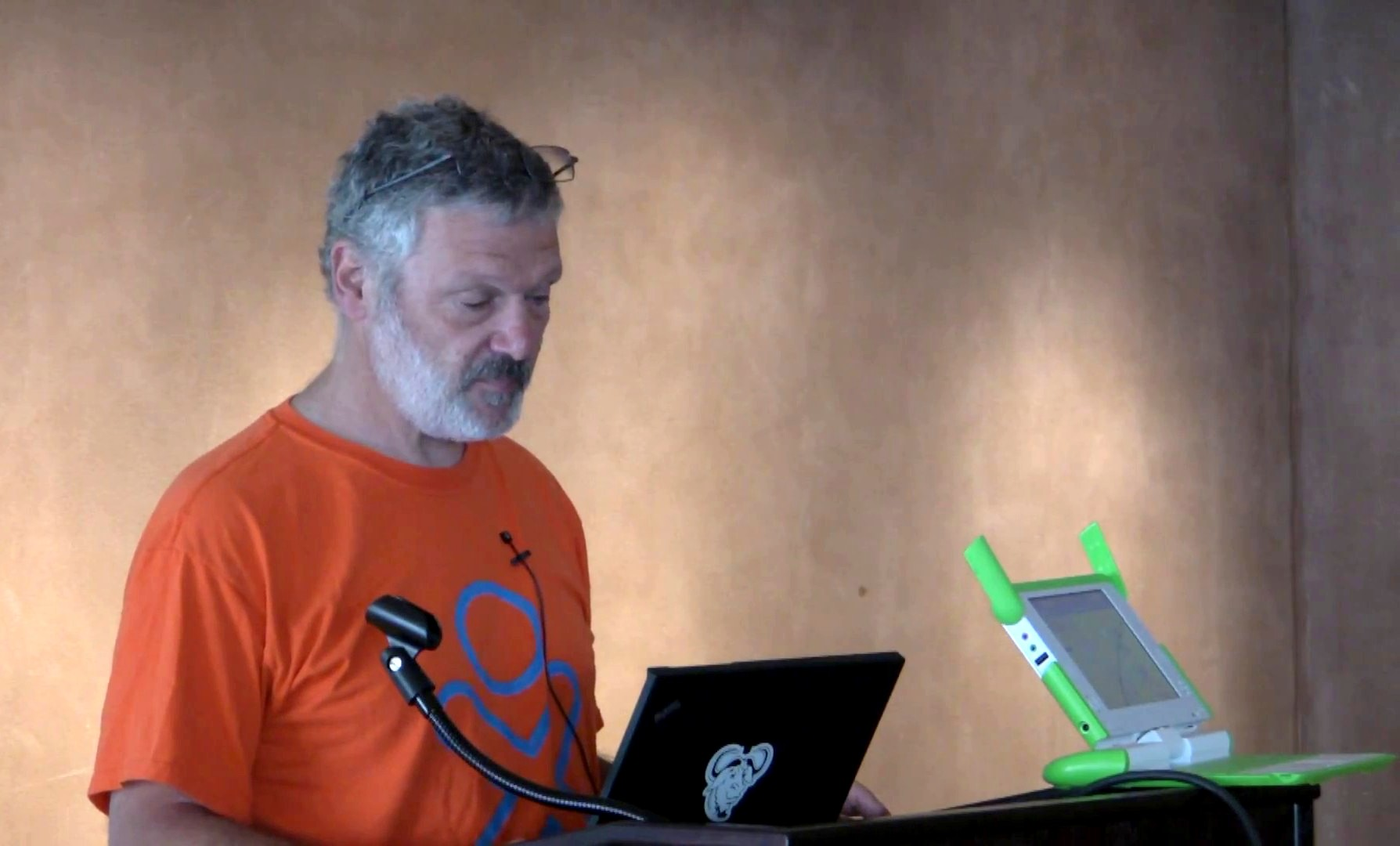 Walter Bender giving a talk at Software Freedom Day Boston in 2011. An OLPC is visible on the right.